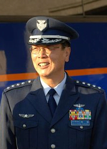 General Tadashi Yoshida, Chief of Staff, Japan Air Self Defense Force.